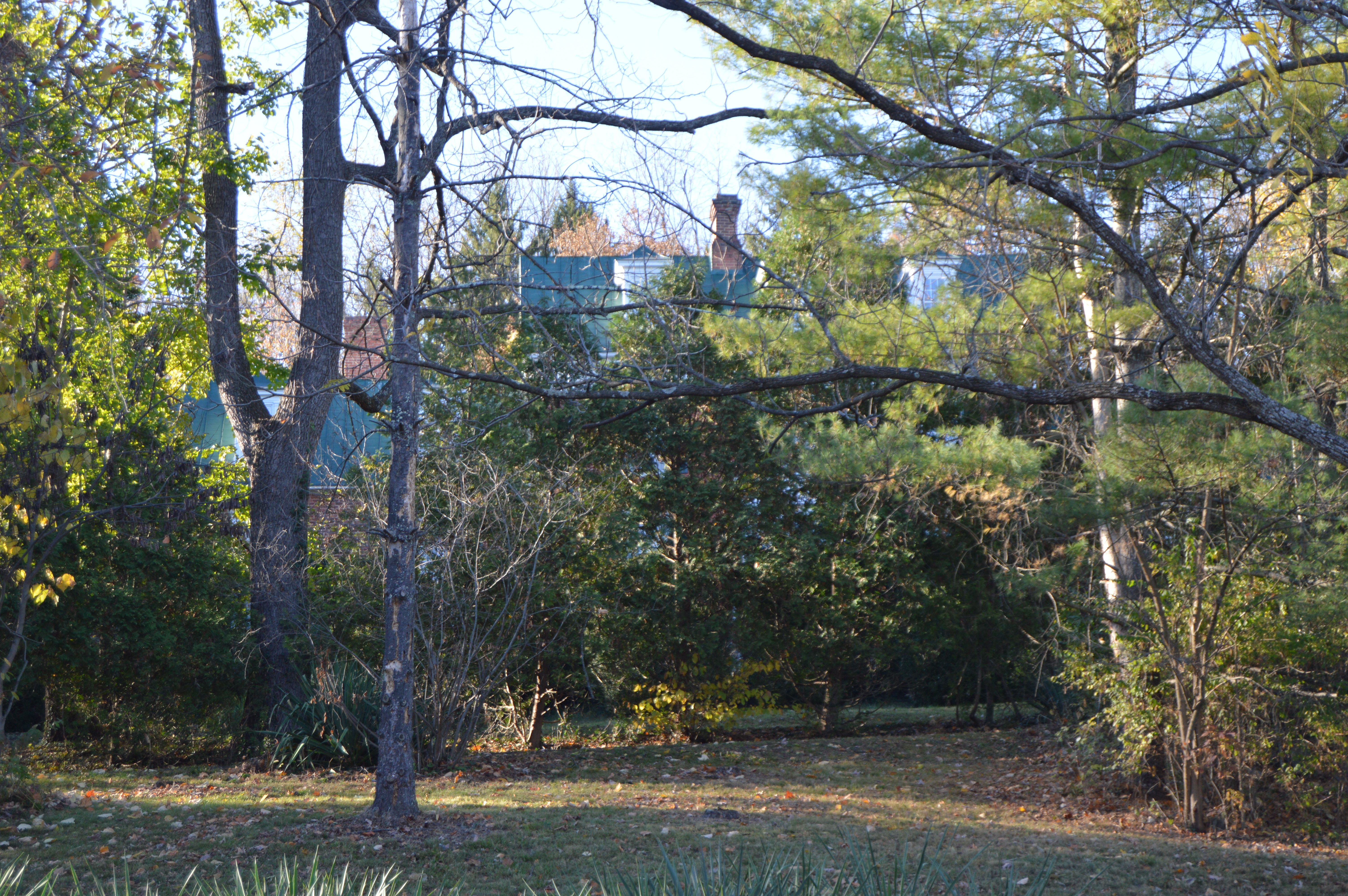 View through the trees of Steephill, located at 200 Park Boulevard in Staunton, Virginia, United States. Built in 1887, it is listed on the National Register of Historic Places.